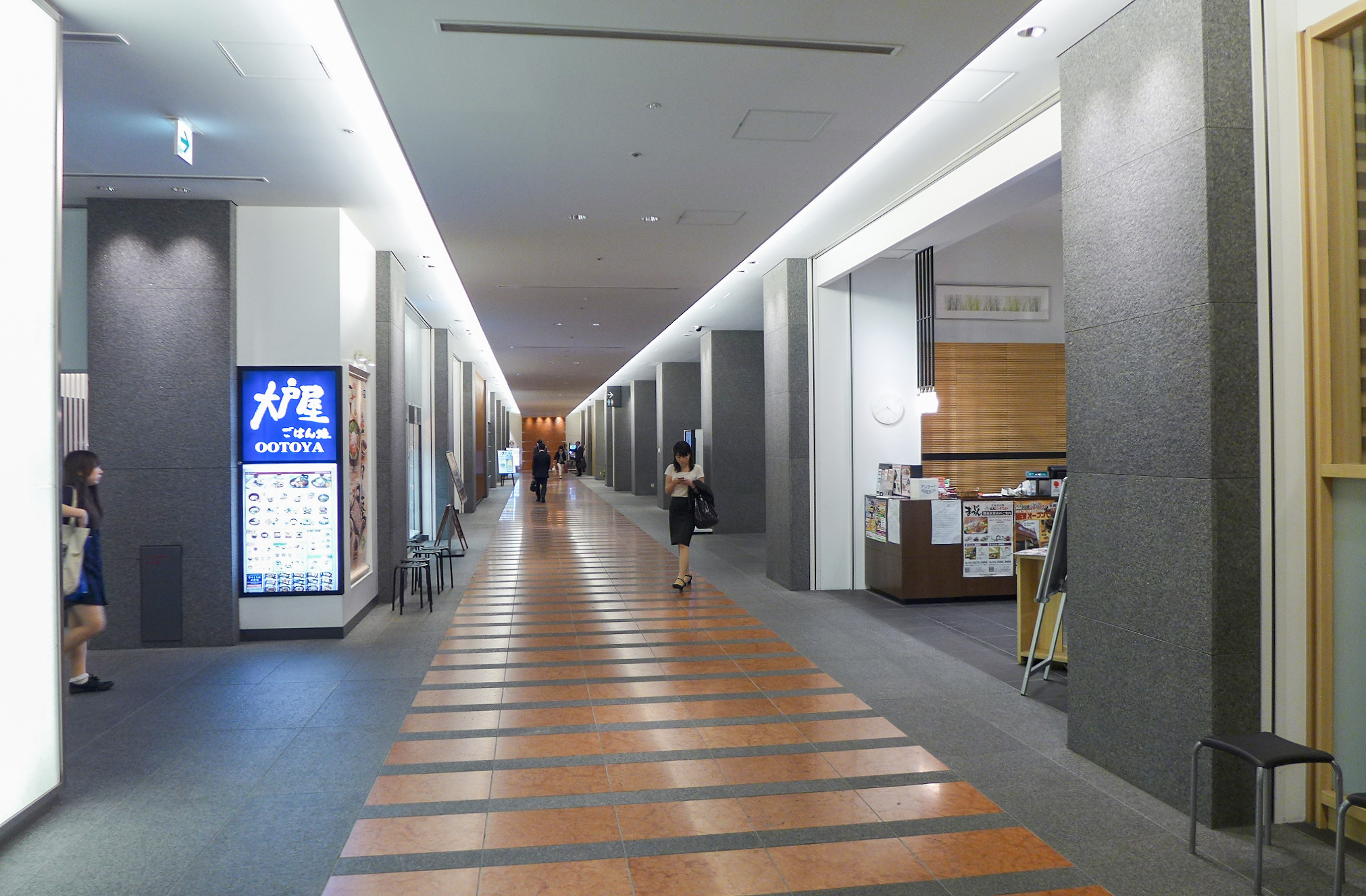 Nissay Sapporo Building Basement Restaurant